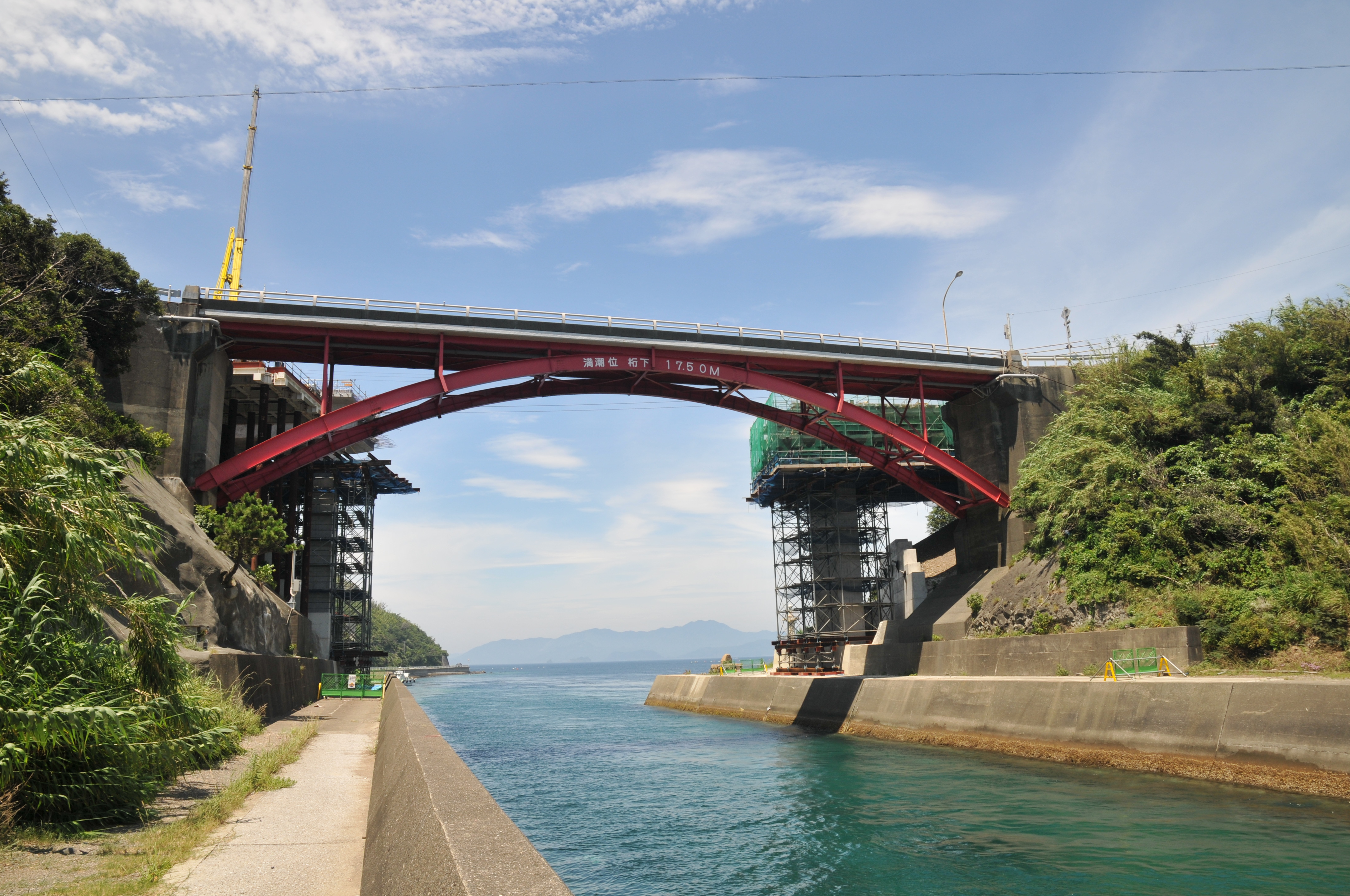 Funakoshi Canal and bridge